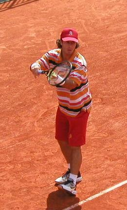 crop of Image:Spadea 2006 2.jpg